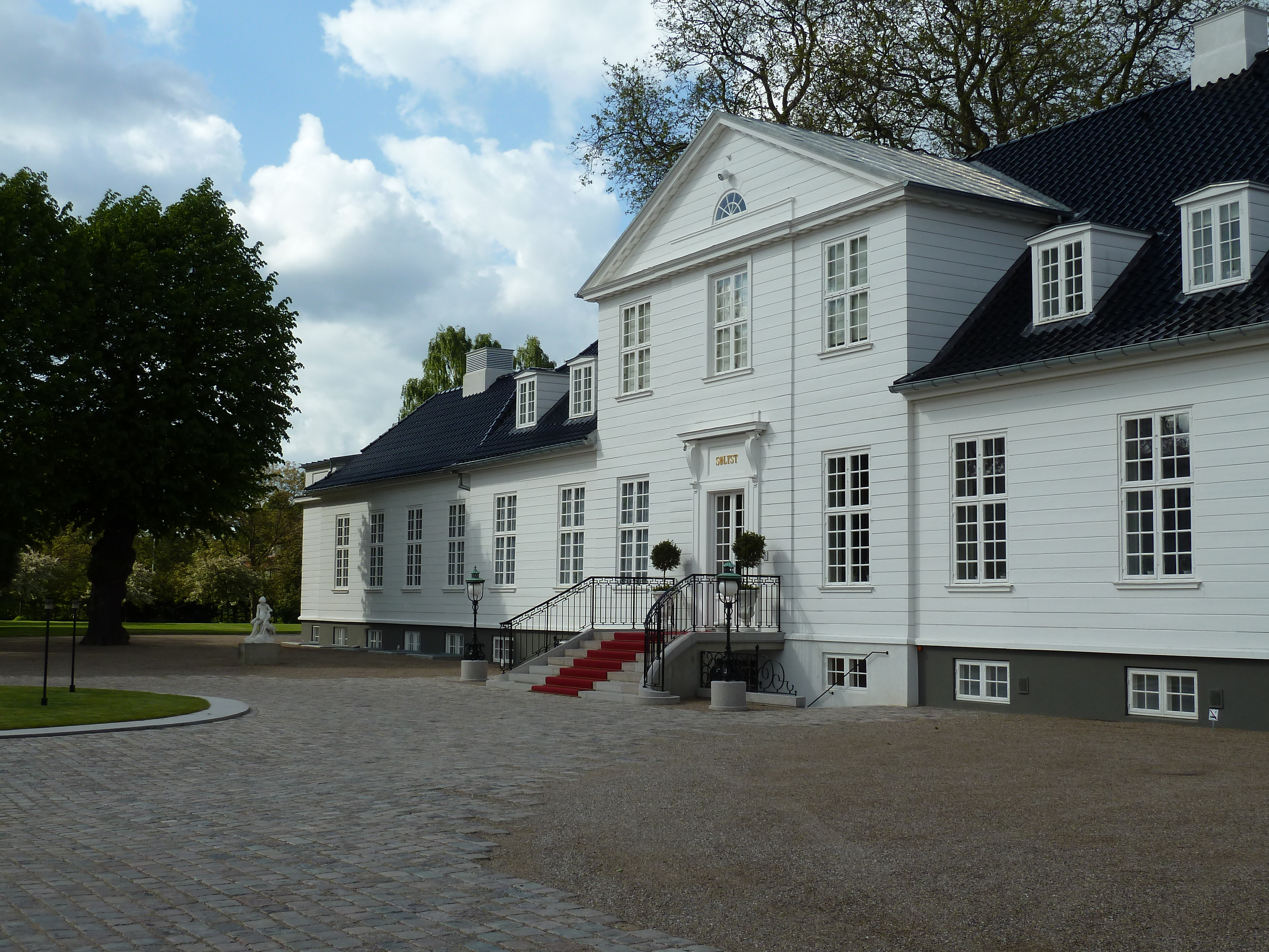 Sølyst in the Klampenborg suburb of Copenhagen, Denmark. Originally a country house, now the home of the Royal Copenhagen Shooting Society